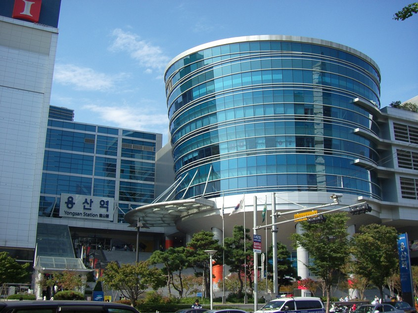 Yongsan Station